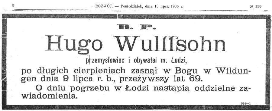 Obituary for Hugo Wulffsohn